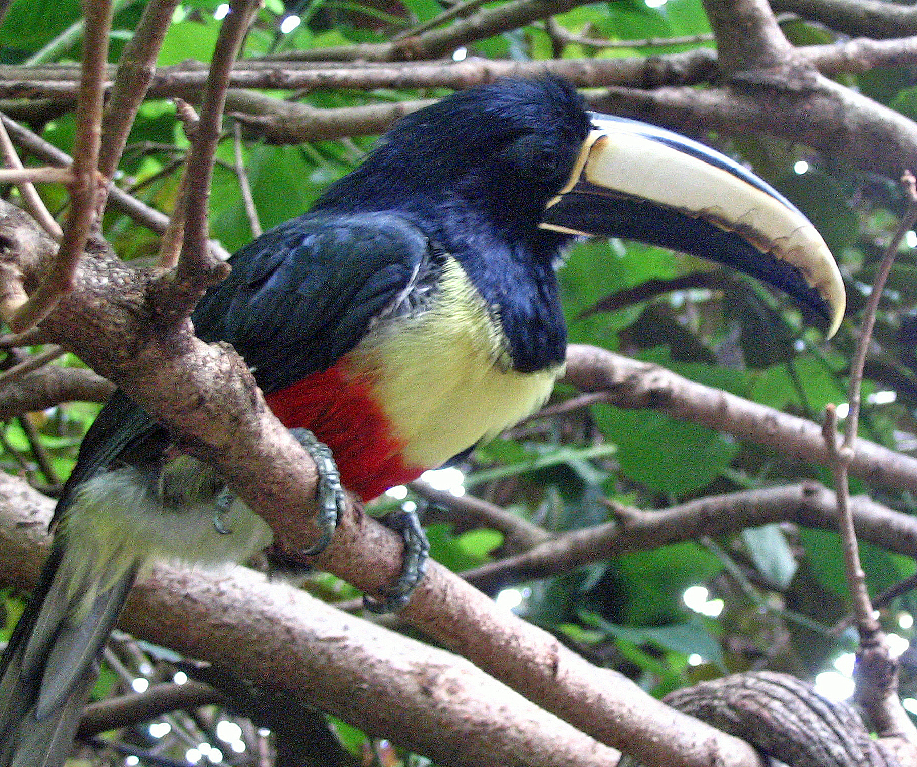 Black-necked Aracari feeding in the free roaming aviary, at Discovery Cove, Orlando, florida, USA.